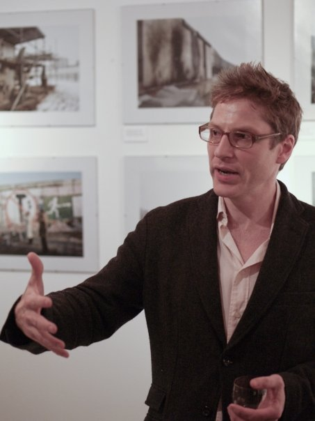 This file is my own work.